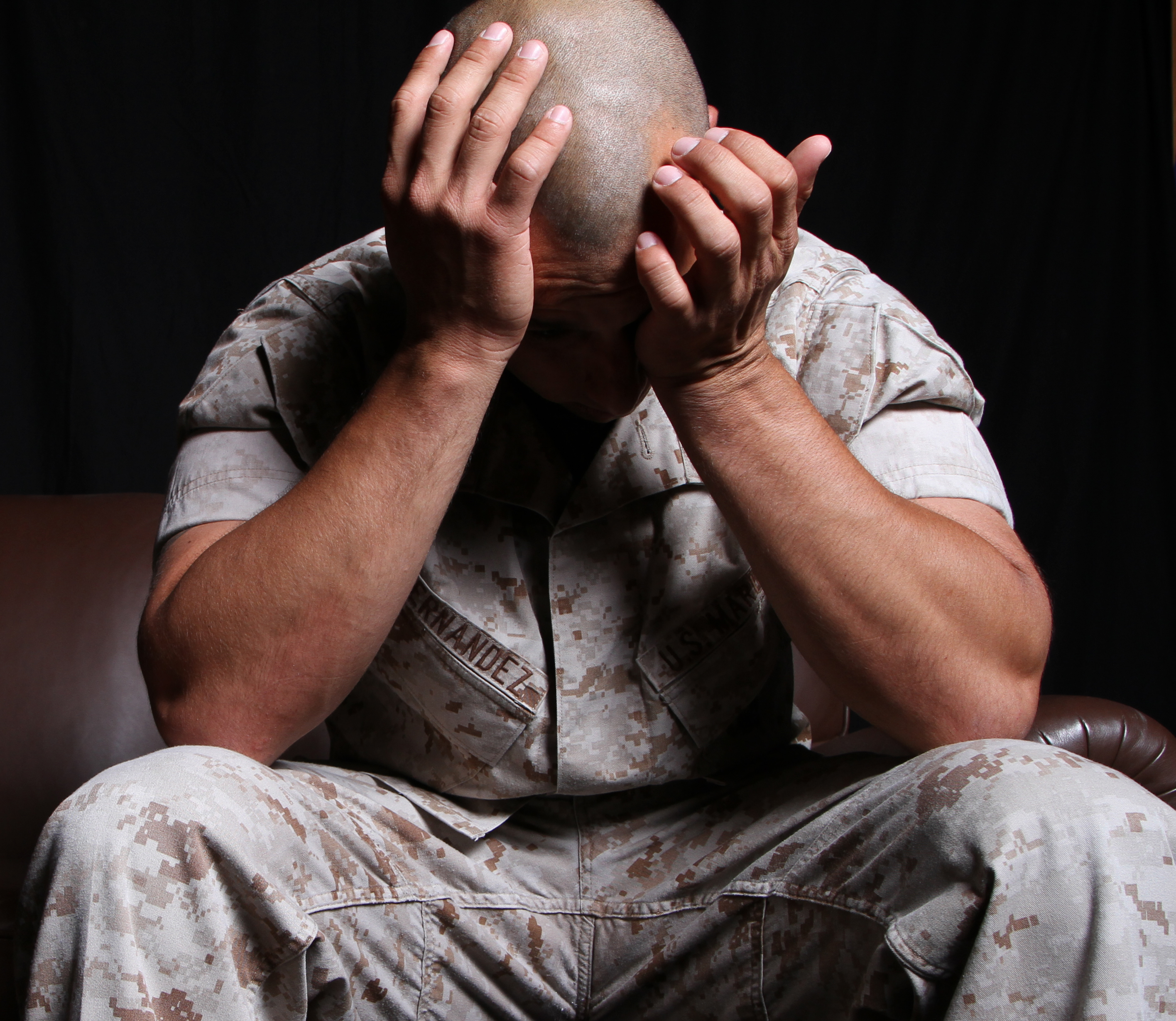 Many Marines return to the states with vivid memories of their combat experiences, and the array of emotions they face internally may be hard to detect. While changes in behavior are more obvious, symptoms can also manifest in physical form.